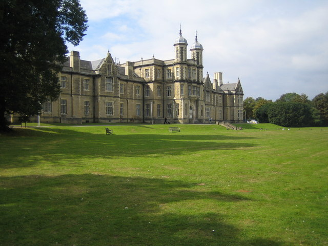 Snaresbrook Crown Court. The building was originally constructed as the "Infant Orphan Asylum" on the instigation of a Congregationalist Minister, Andrew Reed, to provide help and protection for middle-class fatherless children without adequate means of support. When the foundation stone was laid in 1841, Prince Albert performed the deed and the event attracted all the great and the good from Victorian society. The architect was Sir Gilbert Scott and the building was completed and opened in 1843, again by Royalty, in this case King Leopold of the Belgians. The asylum housed up to 600 children who had to be elected for admission by voters, a procedure that continued until 1947. The asylum was later renamed the Royal Wanstead School and became a grammar school after the 1944 Education Act. However dwindling school numbers and a lack of funding eventually forced its closure in 1971. The building was subsequently taken over by Her Majesty's Court Service and today is Europe's busiest court, handling in excess of 7,000 cases a year.